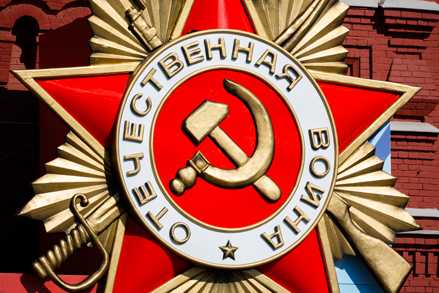 Victory Day military parade on Red Square 2016-05-09